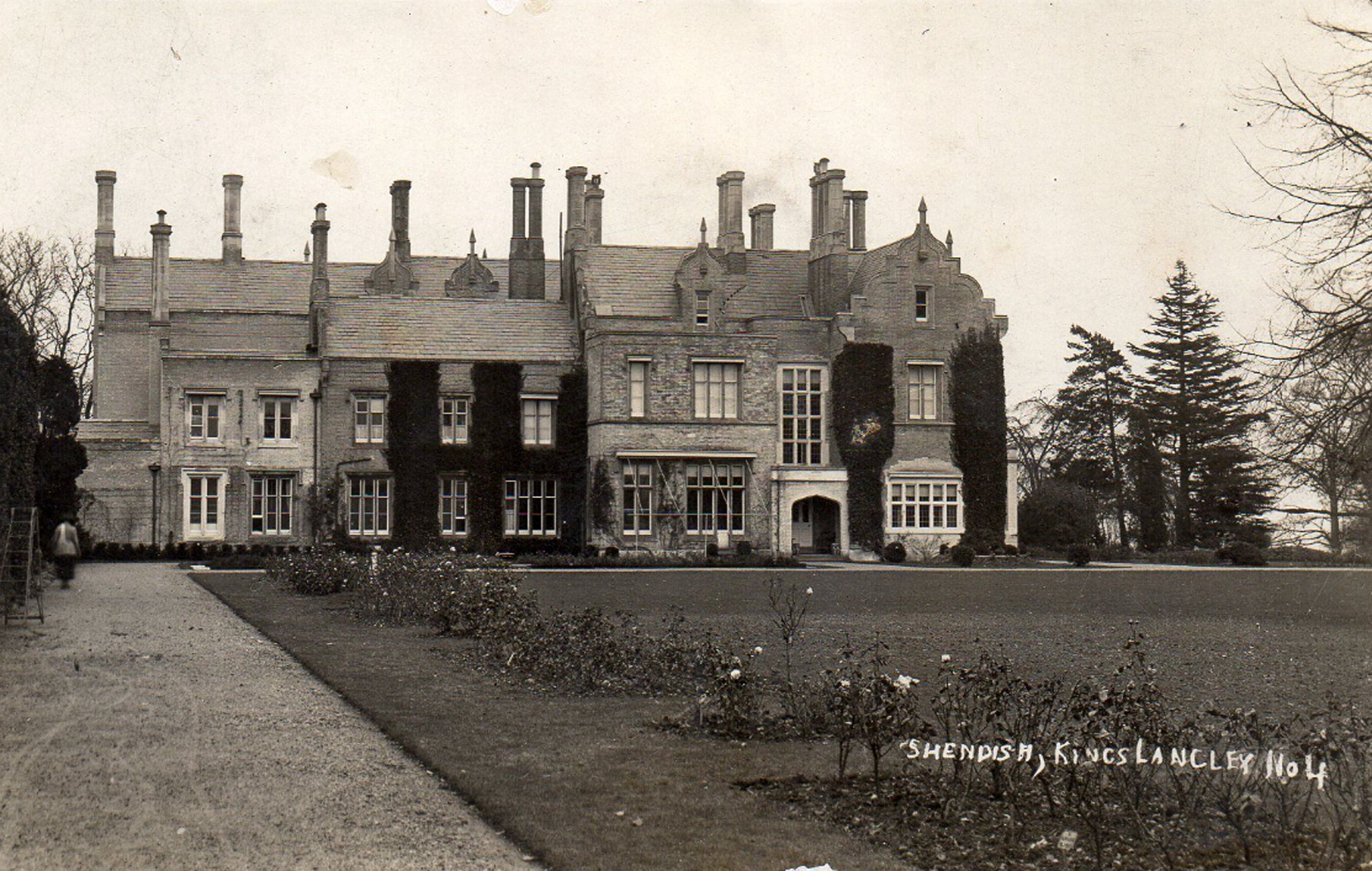 Shendish Manor circa 1900